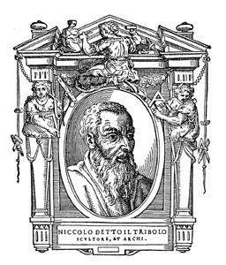 Illustratio from "Le Vite" by Giorgio Vasari, edition of 1568. For the artist portrayed see filename